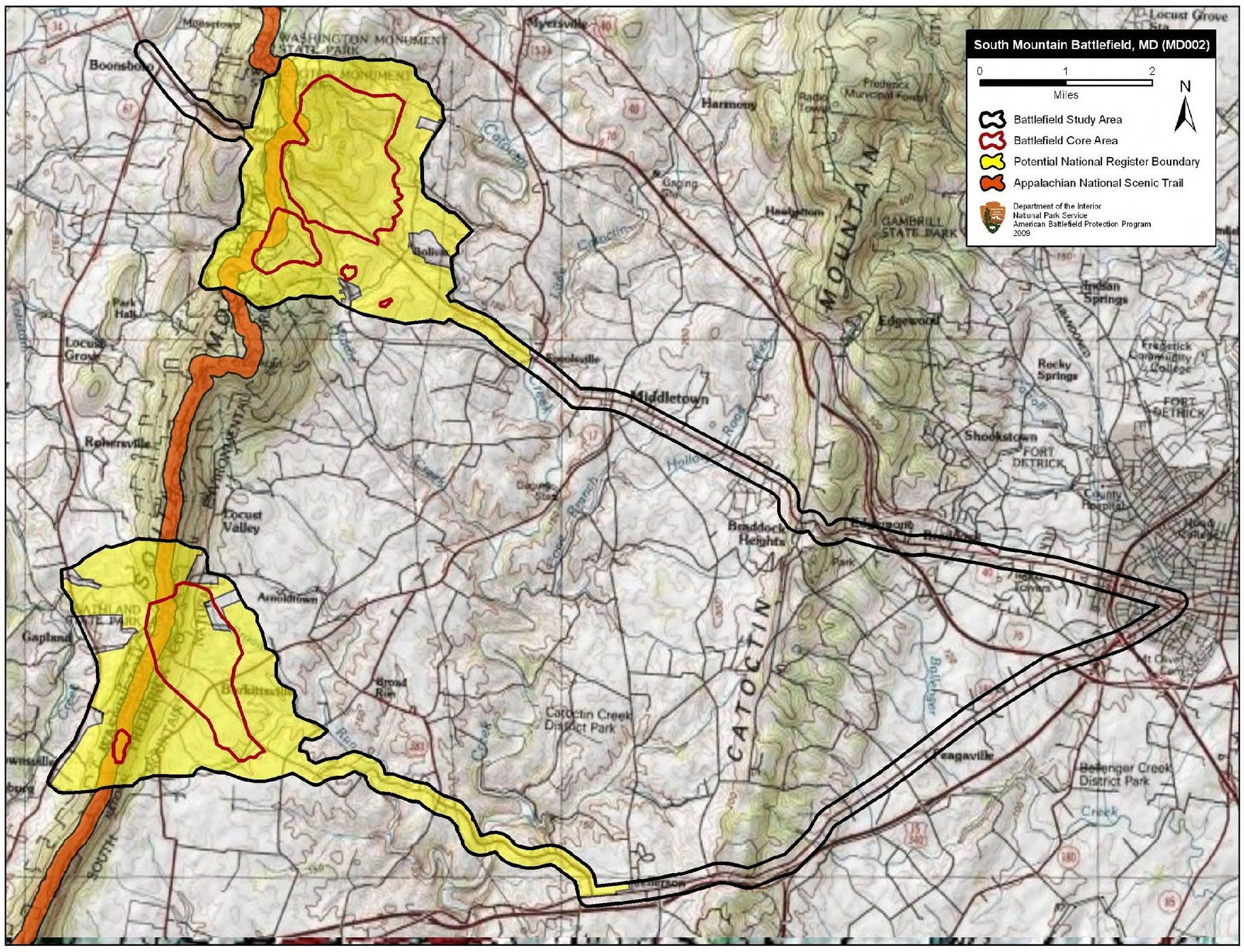 Map of battlefield core and study areas. The revised boundary includes routes taken by Union forces pursuing Confederate soldiers from Frederick to South Mountain, the areas of battle for possession of the South Mountain passes, and the Confederate route of retreat.